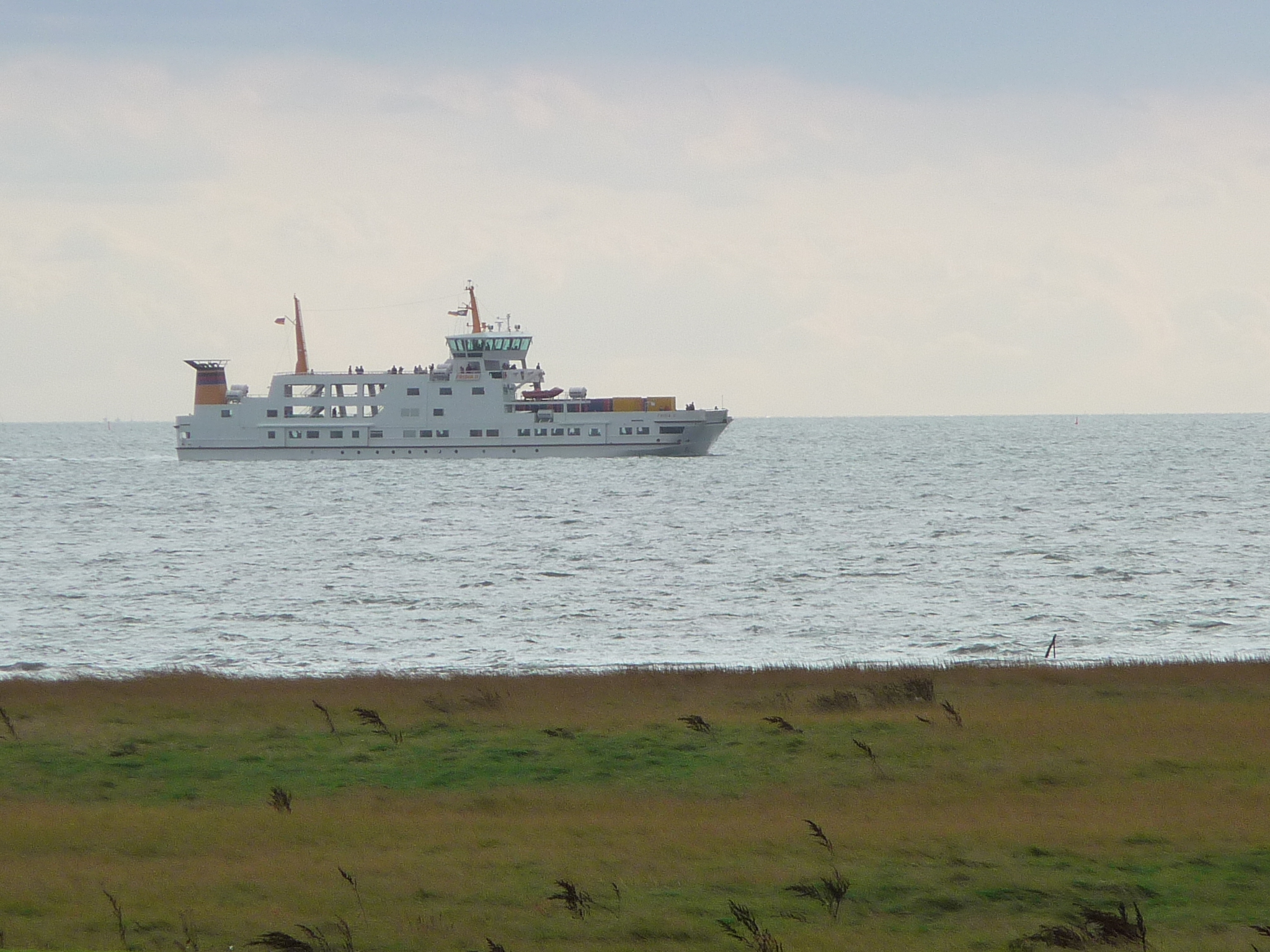 Ferry Frisia II on its way from Norddeich to Juist.